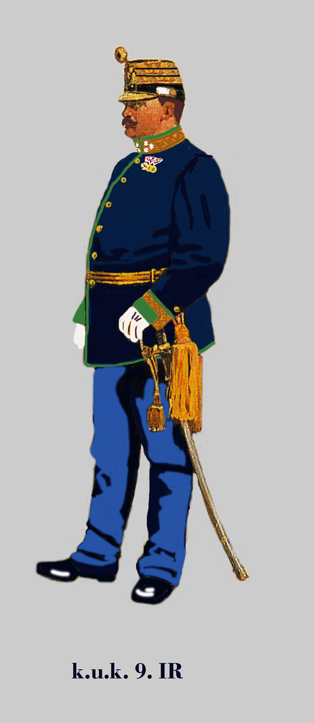 Colonel of the k.u.k. 6th german Infantry Regiment in parade dress 1914